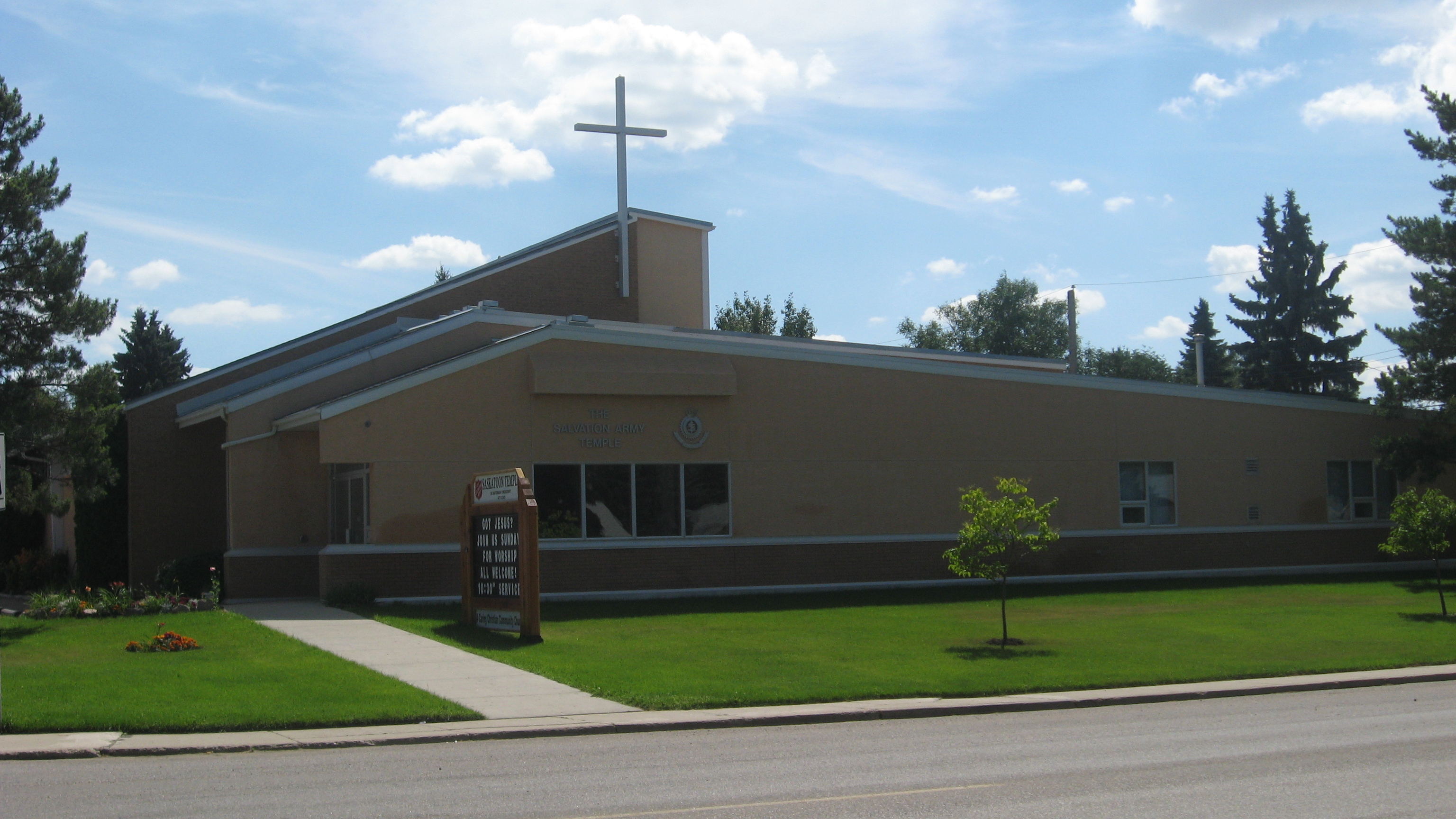 Salvation Army Church, Main Street, Saskatoon, SK. Shot Aug 2008